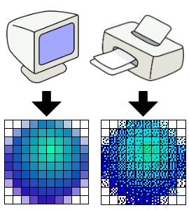 Conceptual comparison of pixels per inch and dots per inch.